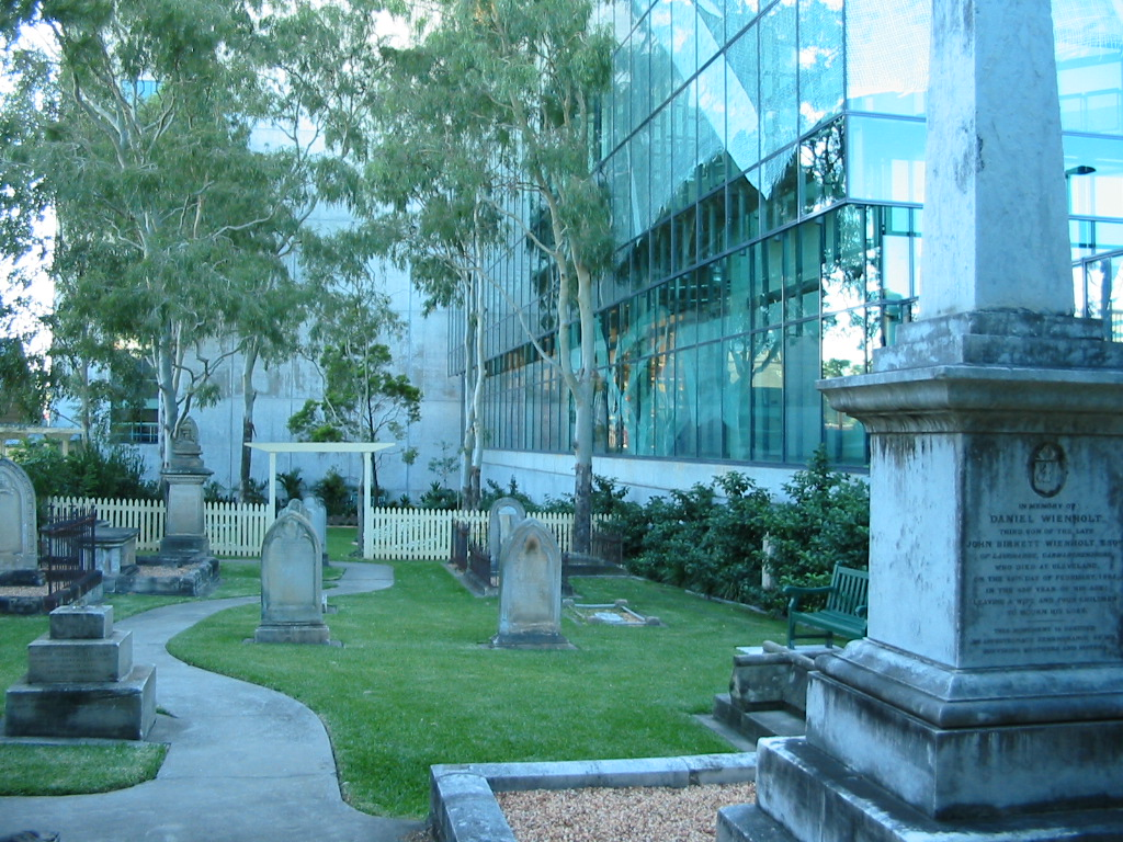 Memorial reserve, Christ Church, Milton, 2005 - these headstones are from the former North Brisbane Burial Ground (aka Paddington Cemetery) lost to the creation of Lang Park sportsground (later Suncorp Stadium). The blue glass walls and blue tinge to this photo is due to the Stadium.